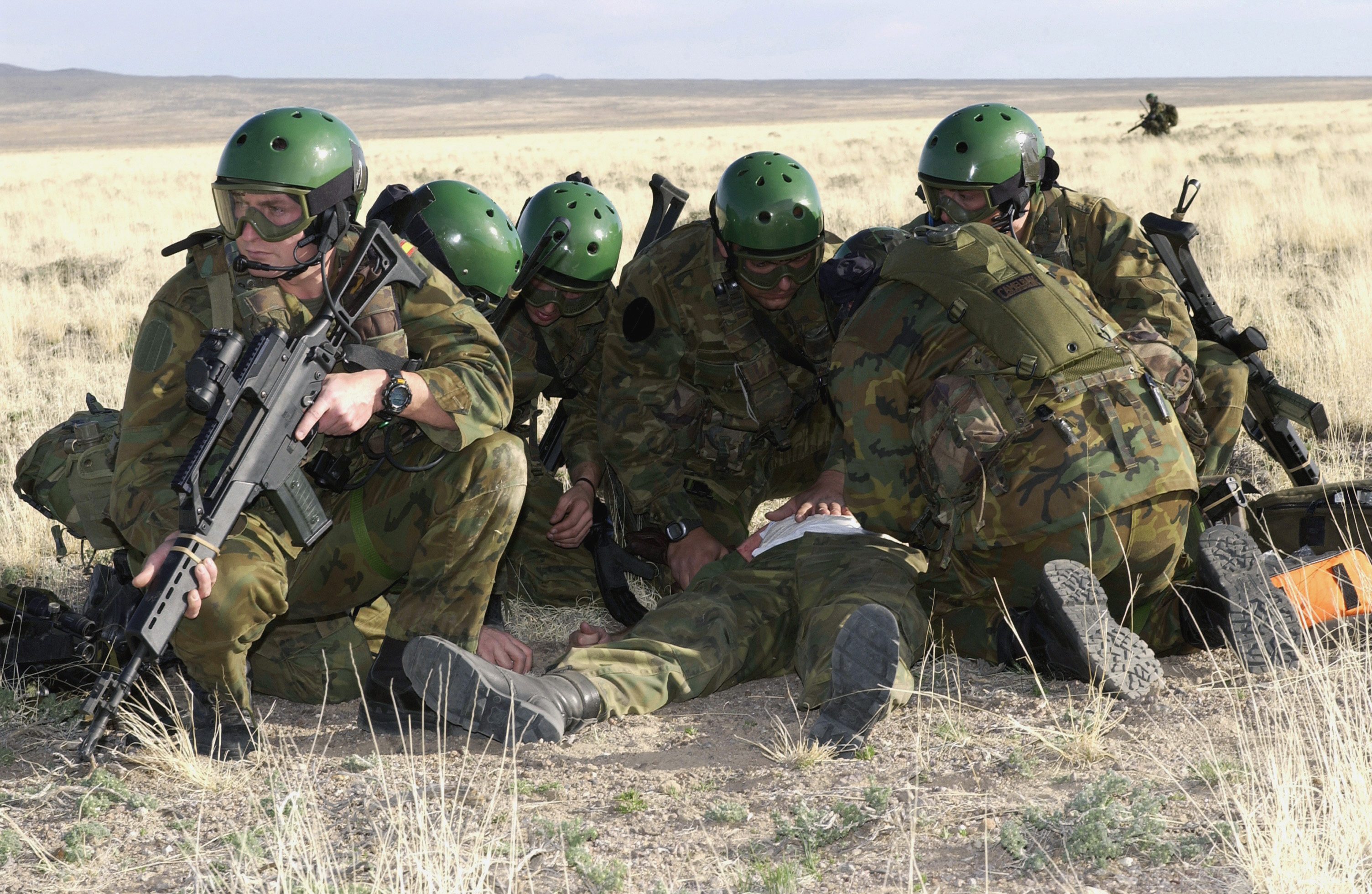 Spanish Special Forces (UOE) medics treat a simulated abdominal injury, and waits for the patient to be air evacuated. The evacuation is part of a Red Flag combat Search And Rescue (SAR) exercise held near the Tonopah Test Range, Nevada (NV).Location: Nellis Air Force Base, Nevada (USA)